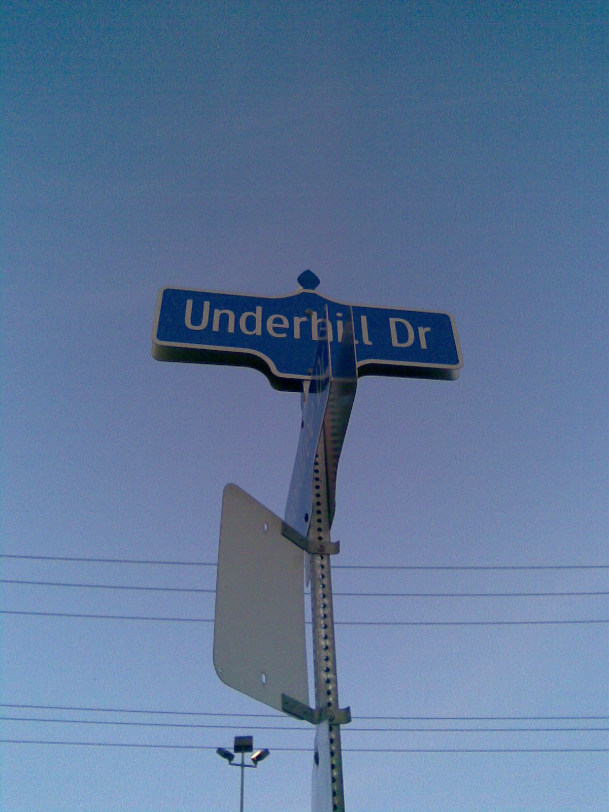 Underhill Drive at Doonaree Drive, in the Parkwoods neighbourhood of North York, Toronto, Ontario.